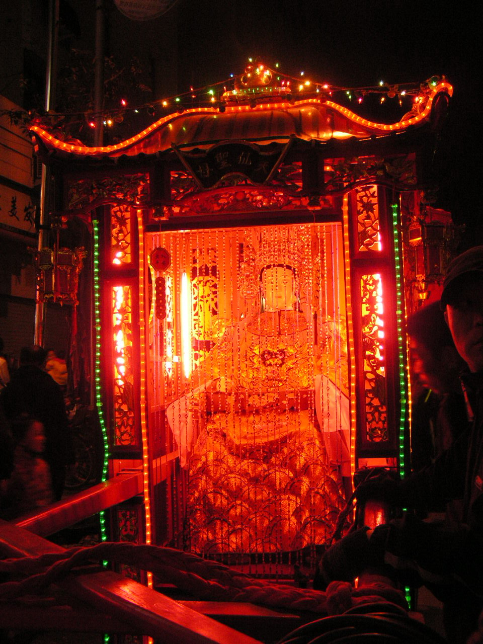 Lantern Festival Taoist parade of a goddess in Luoyuan, Fuzhou of China